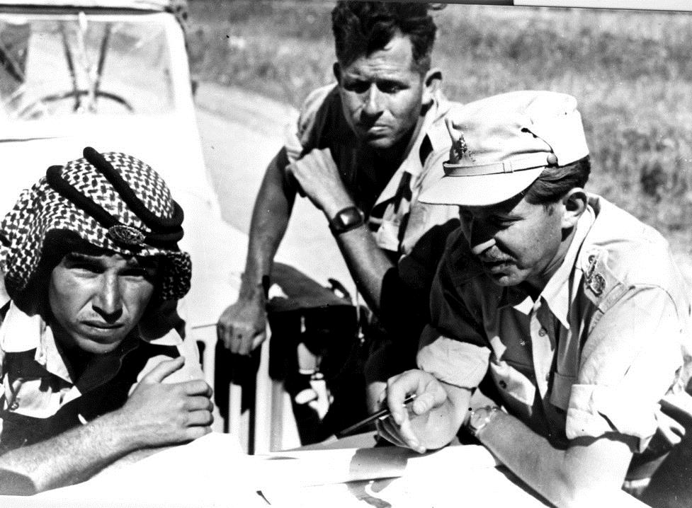 Asaf Simchoni with HaimHerzog and a Jordanian officer, set the Armistice Line 1948